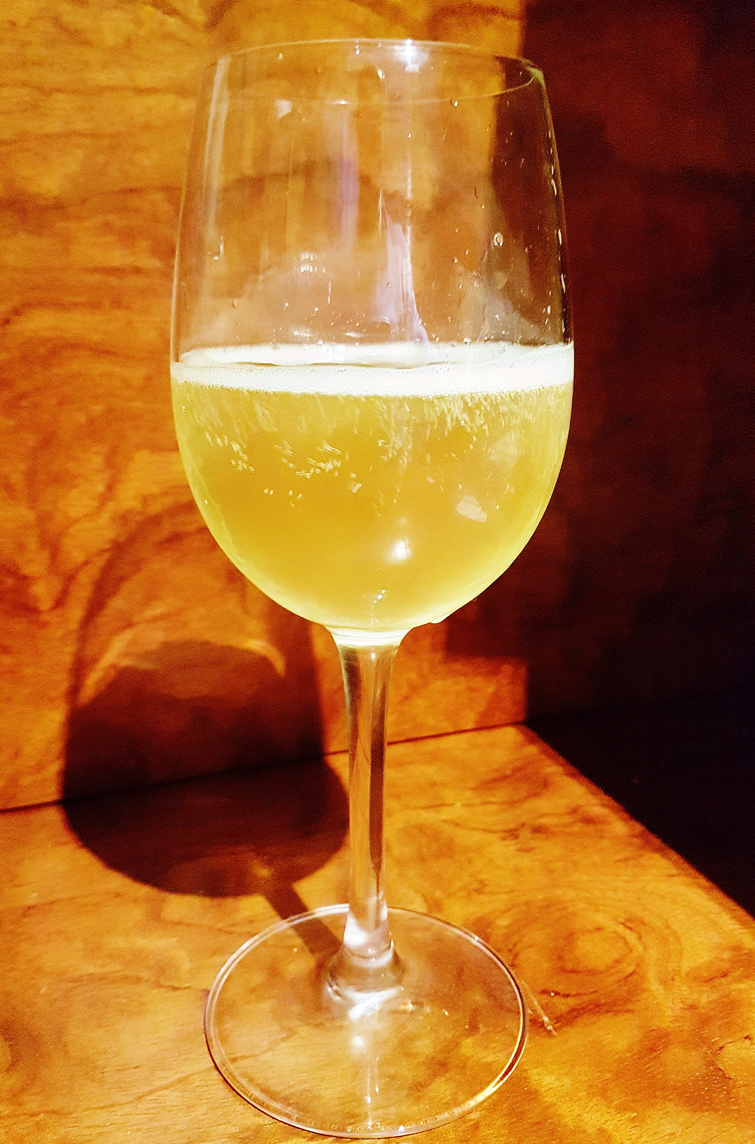 Sparkling Natural Wine Bulco from the Loire Valley. Gérard Marula. Jean 2 restaurant. Château de Montsoreau-Museum of Contemporary Art